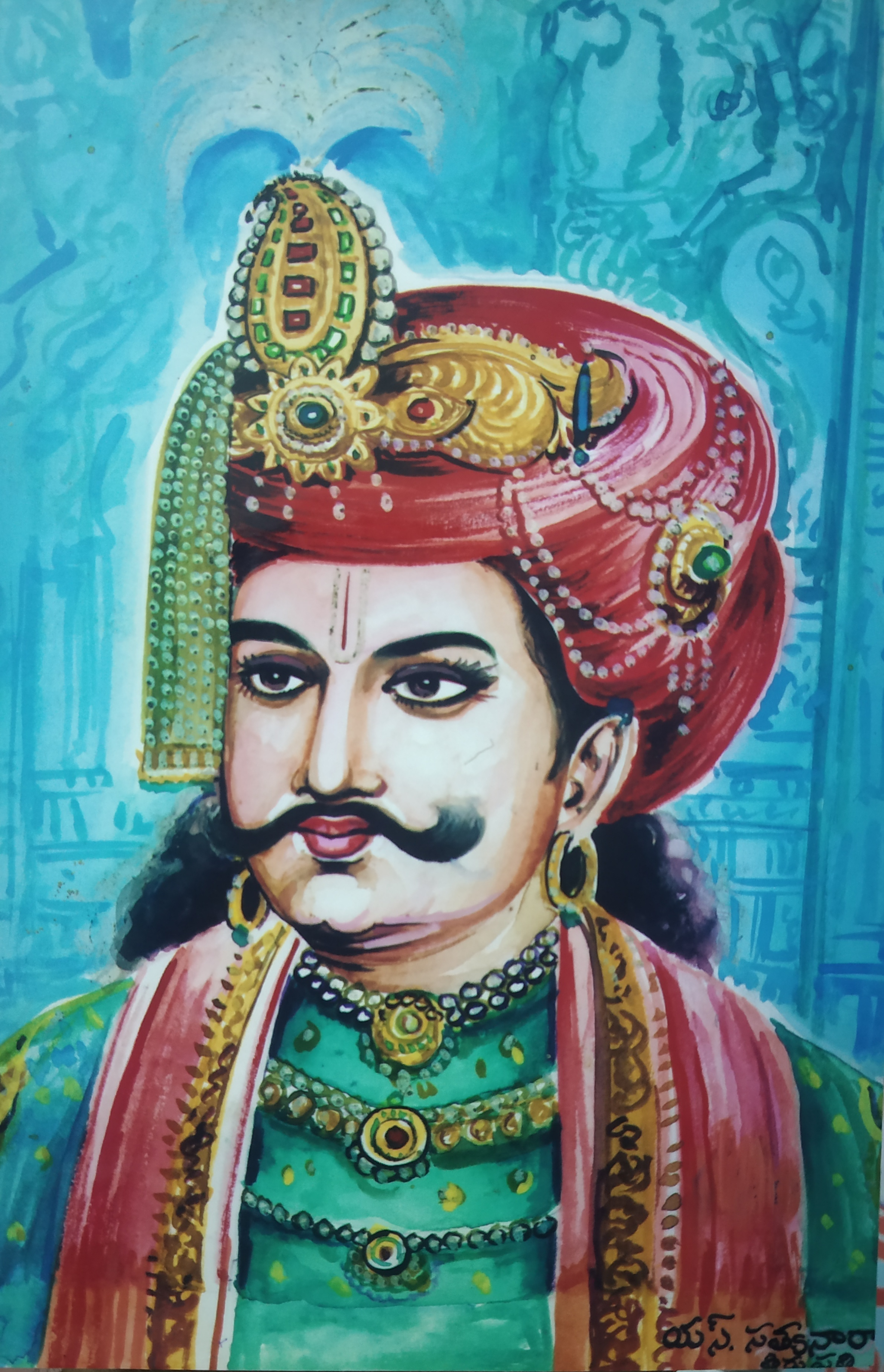 Sri Krishnadeva Raya by Singampalli